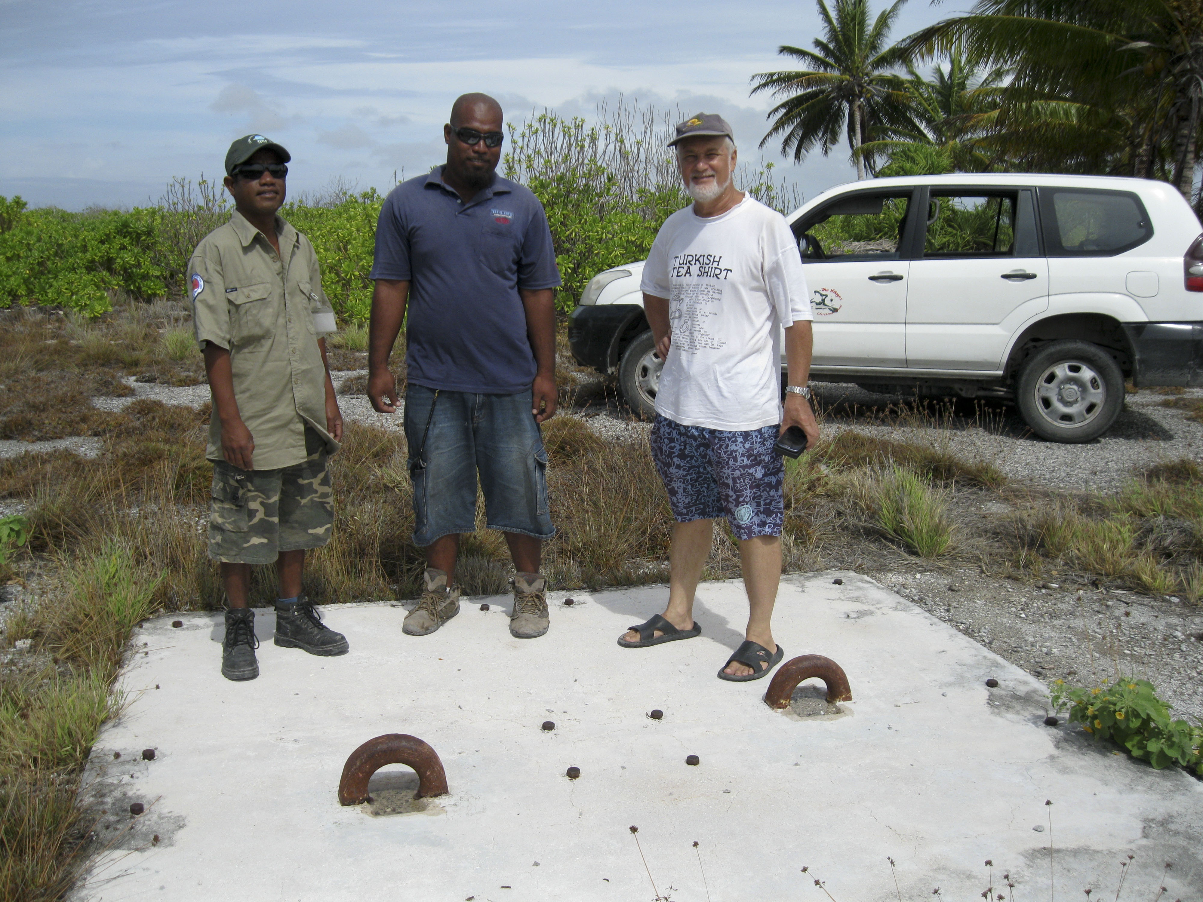 Anchor on Kiritimati Island for British nuclear bomb balloon